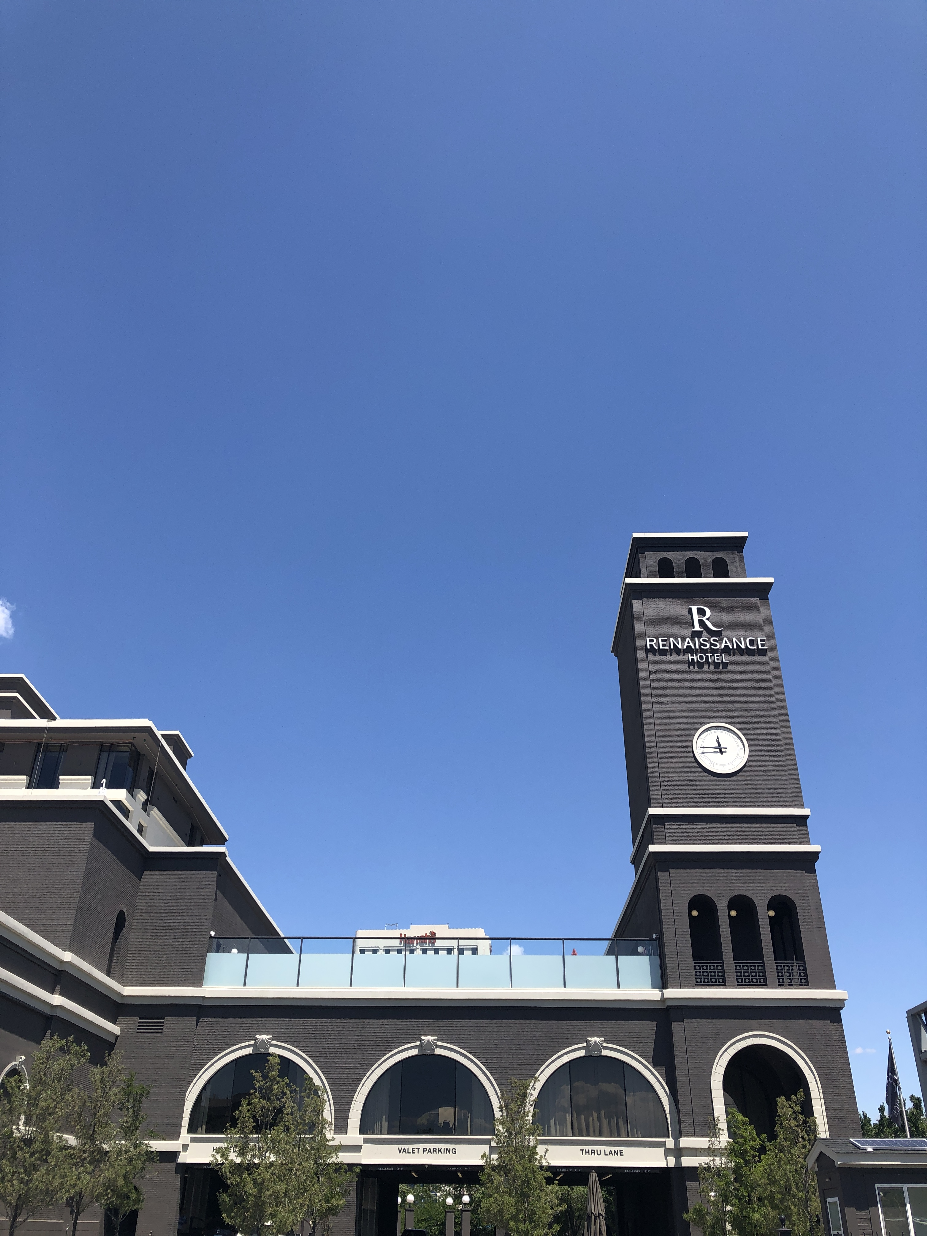 Renaissance Reno in Reno, Nevada